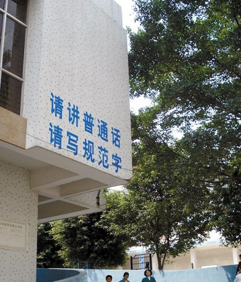 Façade of a school in Guangdong with writing: "Please speak Standard Chinese / Please write standard characters". (请讲普通话 / 请写规范字, Qǐng jiǎng pǔtōnghuà / Qǐng xiě guīfàn zì)